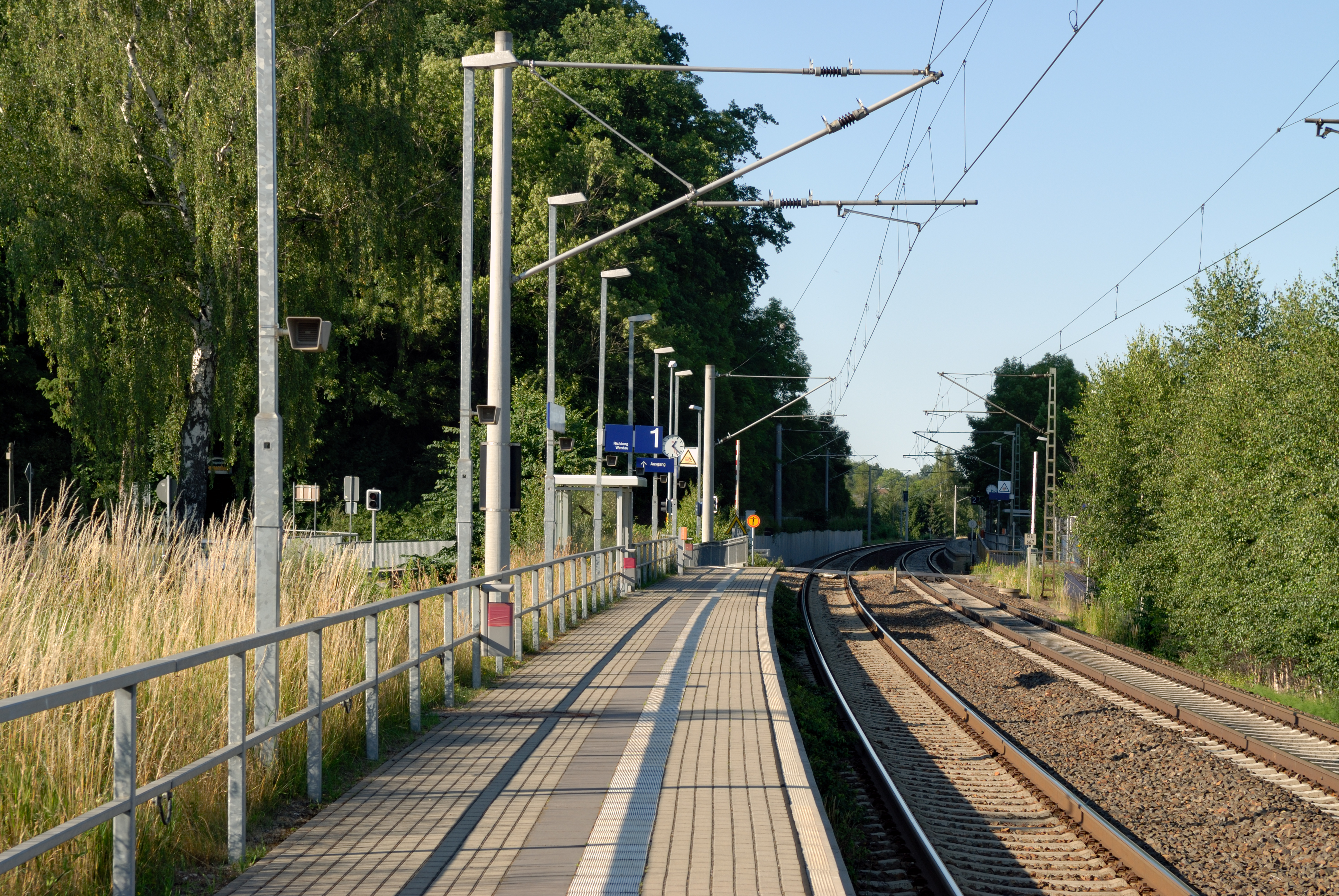 This image shows the train station in Neumark in the Vogtland, Germany.